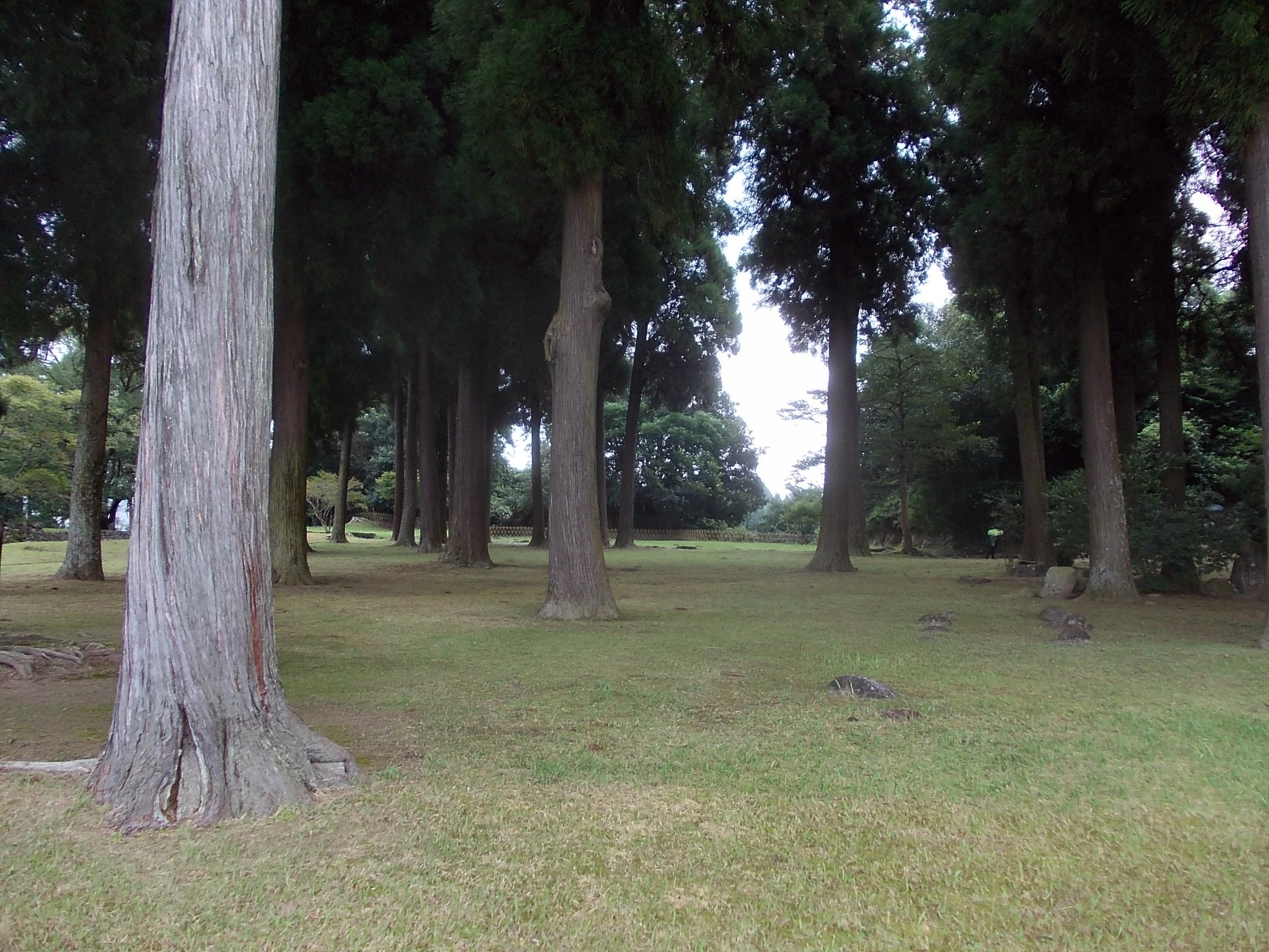 The site of Hitoyoshi Castle Ni-no-maru, Hitoyoshi, Kumamoto, Japan